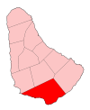 Map of Barbados showing parish of Christ Church.